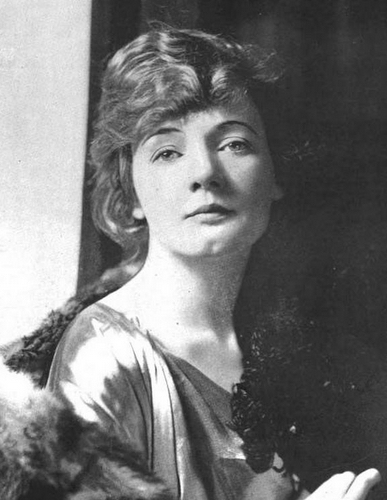 Martha Hedman, from a 1918 publication. A young white woman wearing a shiny dress and fur; she had a prominent chin dimple.